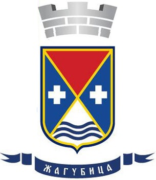 Medium coat of arms of Žagubica